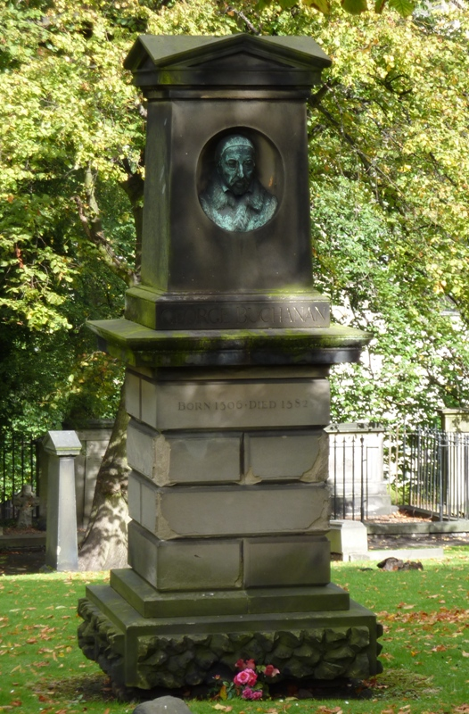 Greyfriars' Kirk, Edinburgh, Scotland. Memorial for George Buchanan.